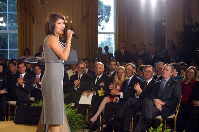 Jaci Velasquez performs during a celebration of contributions and accomplishments of Hispanic Americans in the East Room, October 9, 2002, at the White House Reception for Hispanic Heritage Month.